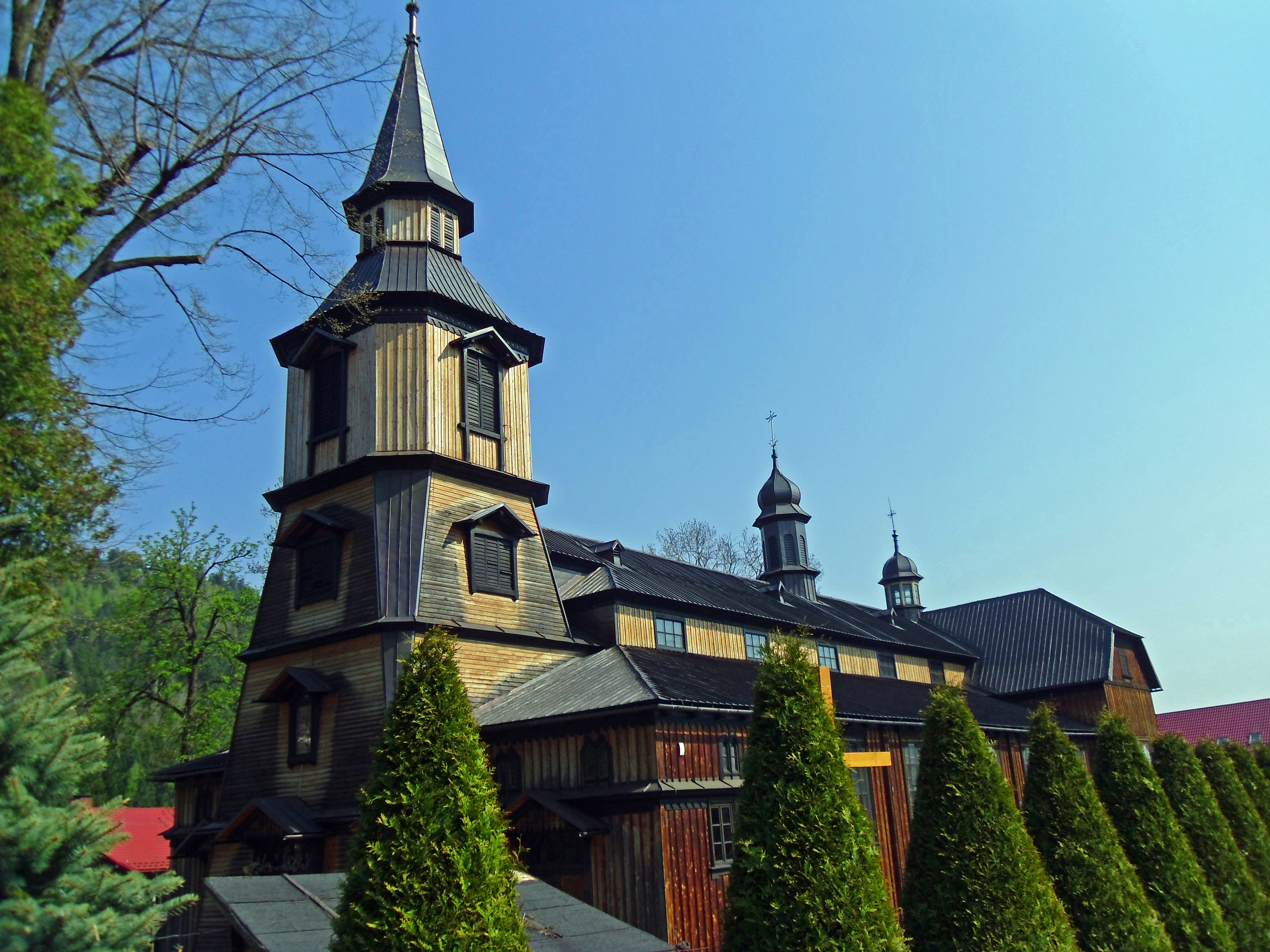 St. Clement church in Zawoja